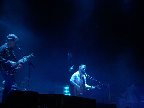 Thom Yorke and Ed O'Brien of Radiohead in a 2006 concert